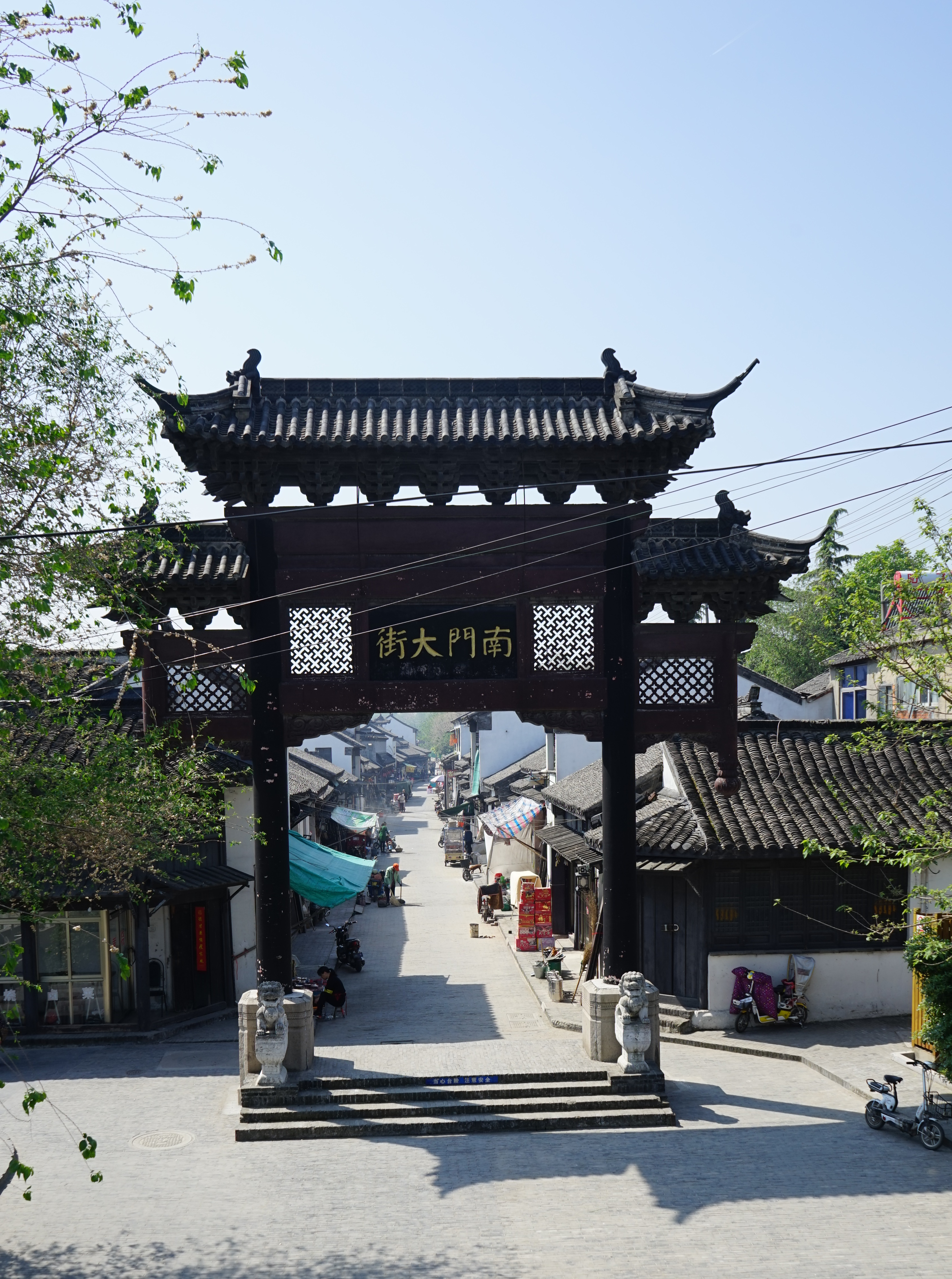 South Gate Avenue, located at the intersection of the Grand Canal and Lixia River. It beared the transportation function for cargos and passengers, and was the most bustling commercial district of the city during the Ming and Qing Dynasties. Now the avenue is about 230 meters long with more than 40 shops.